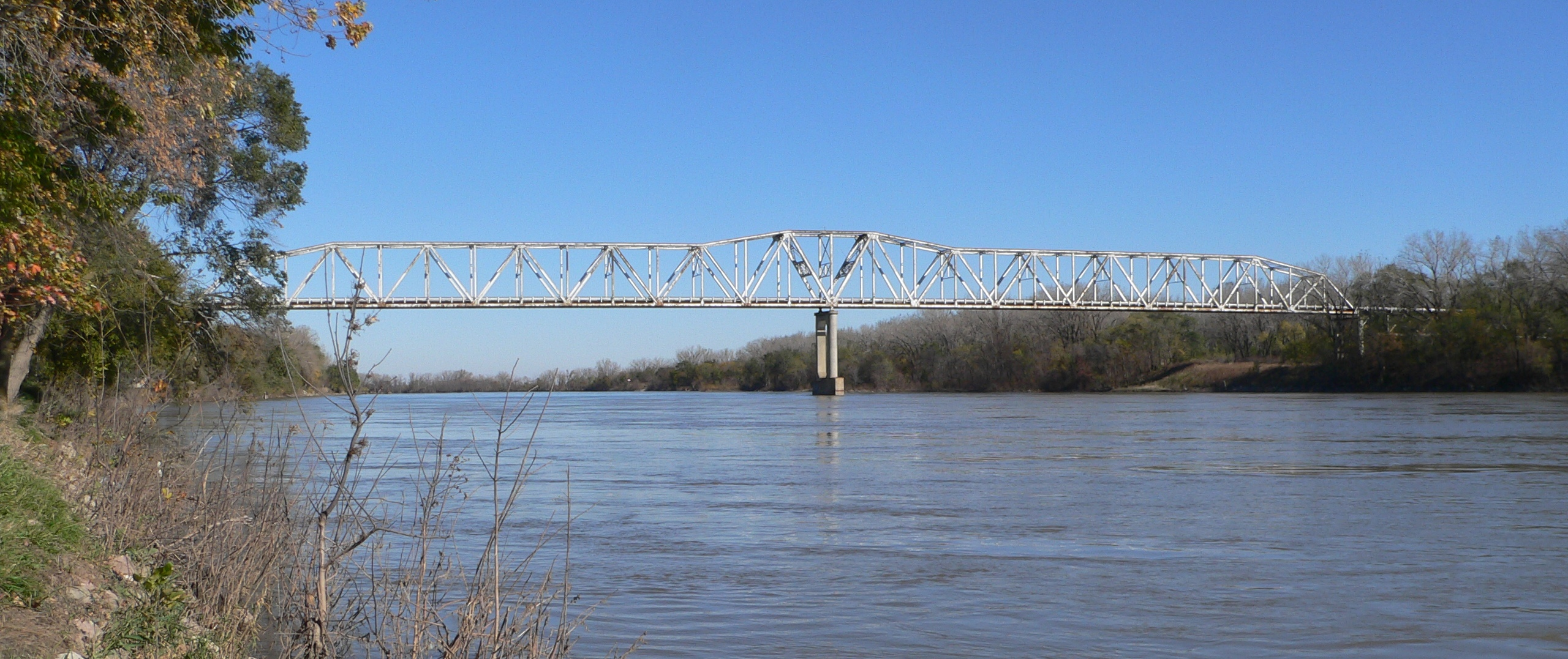 Bridge crossing the Missouri River between Decatur, Nebraska and Monona County, Iowa. The road carried by the bridge is Nebraska Highway 51/Iowa Highway 175. The photo was taken on the Nebraska (west) side, looking upstream.